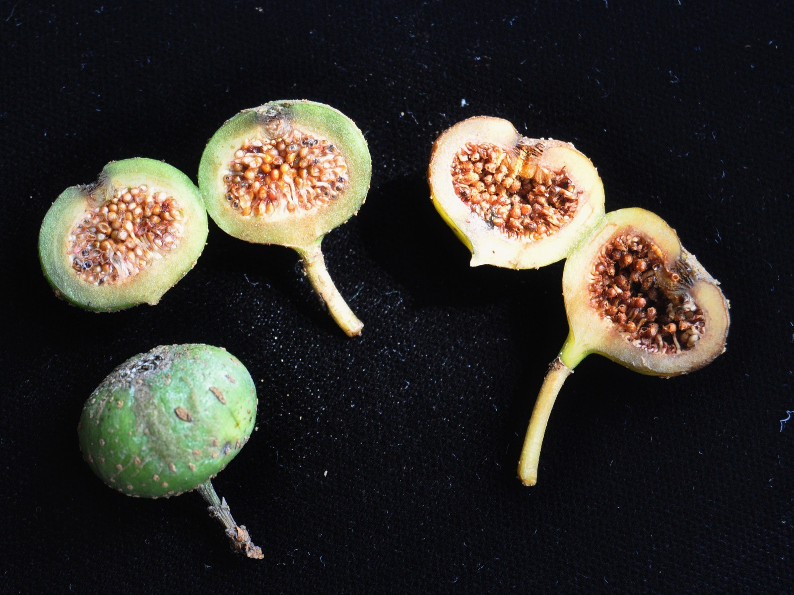 Syconium of a kind Ficus, opened; right: mature, ripe fruit, left: unripened. Photographed in Bogor, West Java, Indonesia.